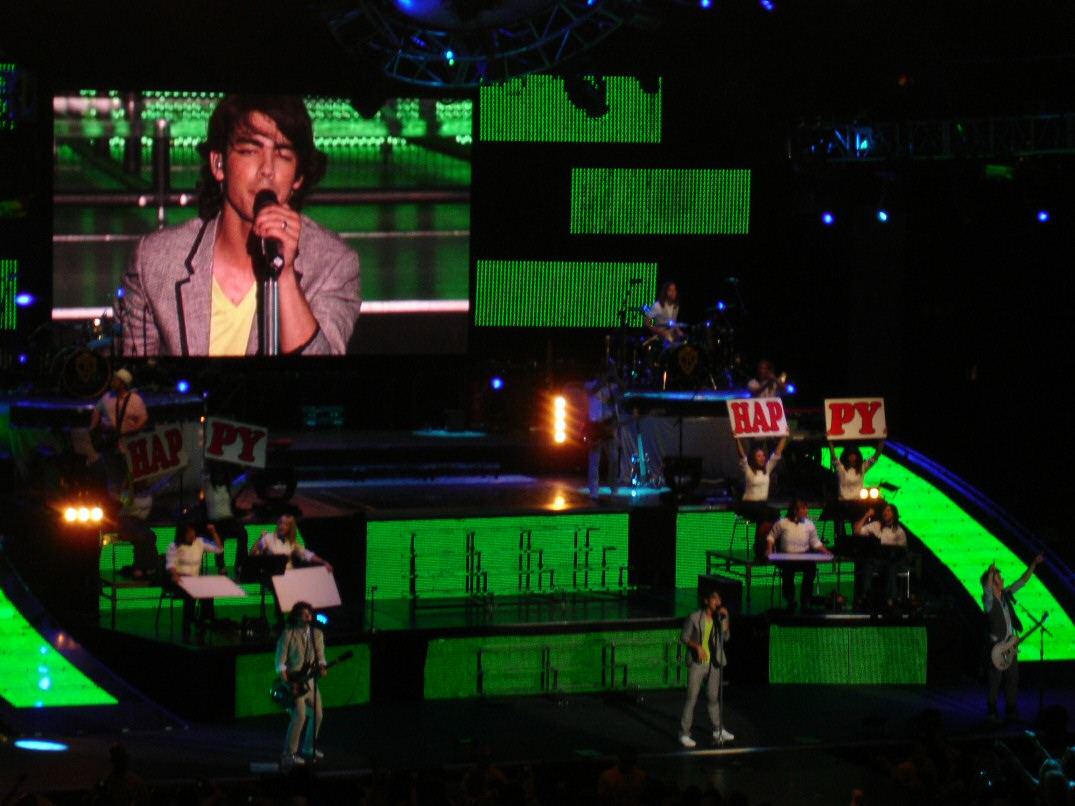 Jonas Brothers in Concert; Irvine, CA 2008